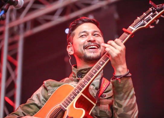 Musical concert in Kathmandu, Nepal